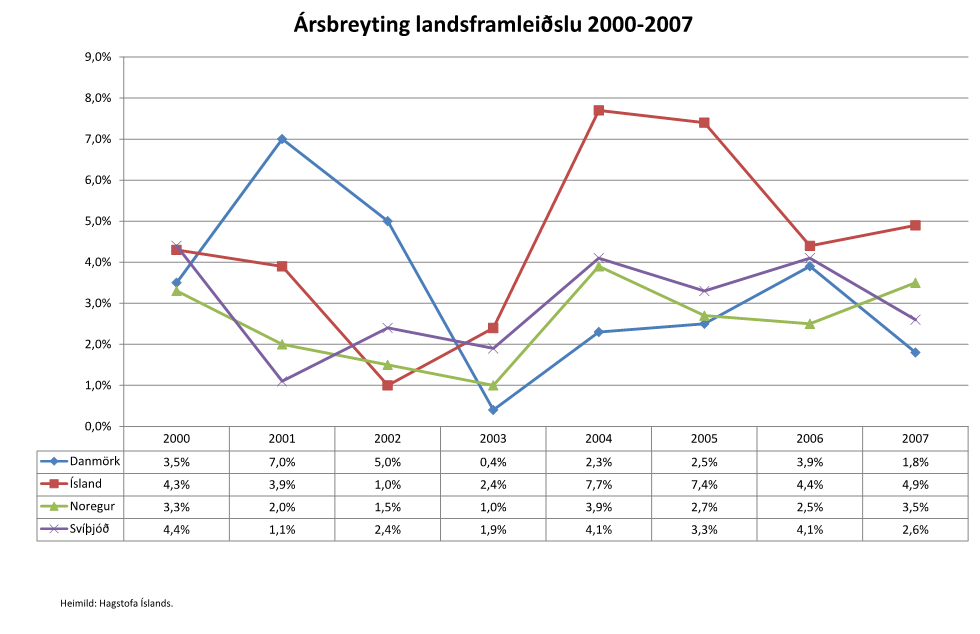 Yearly changes in GDP in Iceland, Denmark, Norway and Sweden in percentages between 2000-2008. In Icelandic based on data provided by Statistics bureau of Iceland (